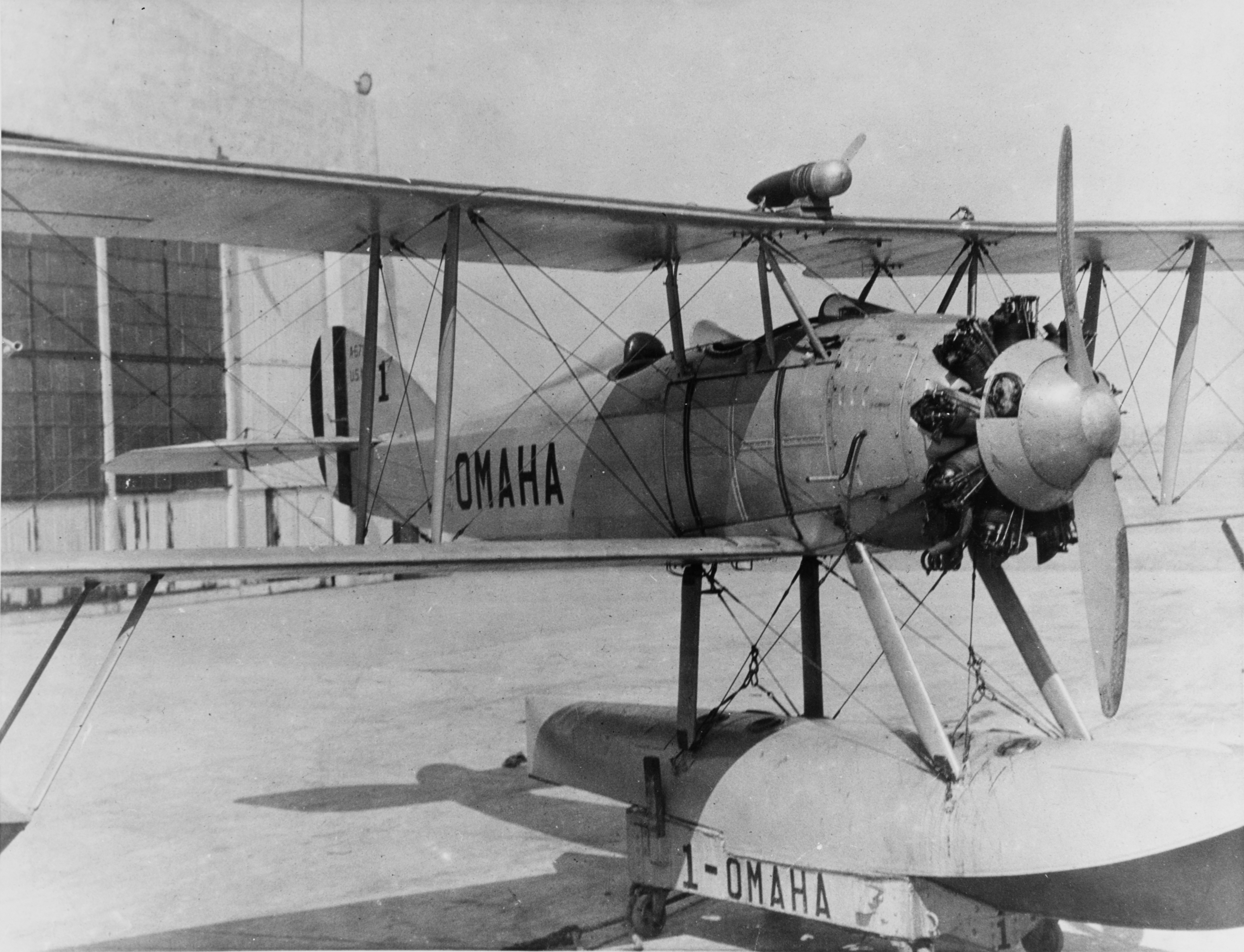 A U.S. Navy Vought UO-1 observation plane (BuNo A-67??) at a naval air station, circa in the mid-1920s. The aircraft was assigned to the light cruiser USS Omaha (CL-4).